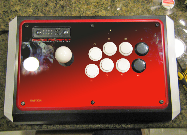 Street Fighter IV TE stick. Removed copyrighted background image.